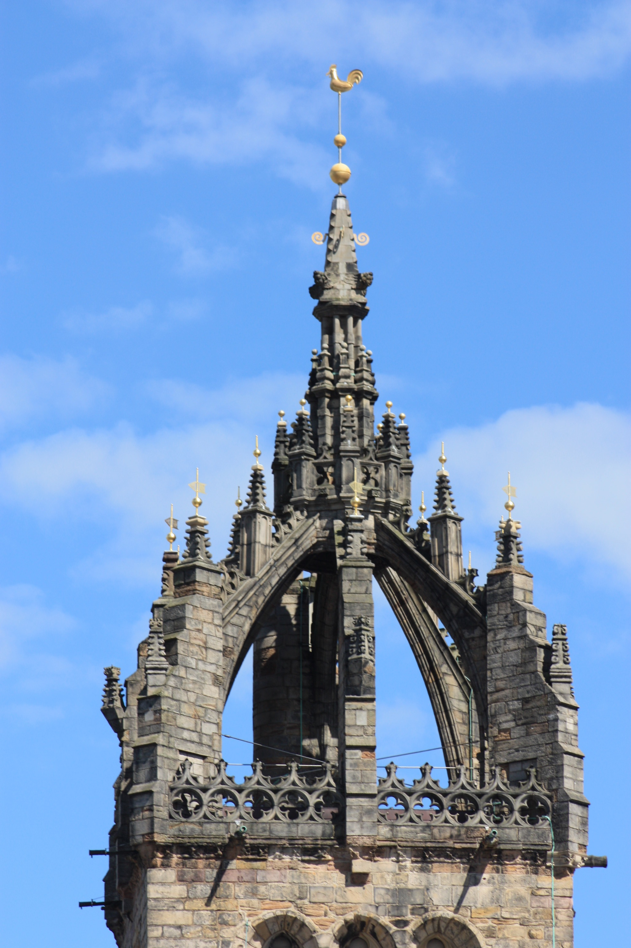 The magnificent crown spire on St Giles Cathedral